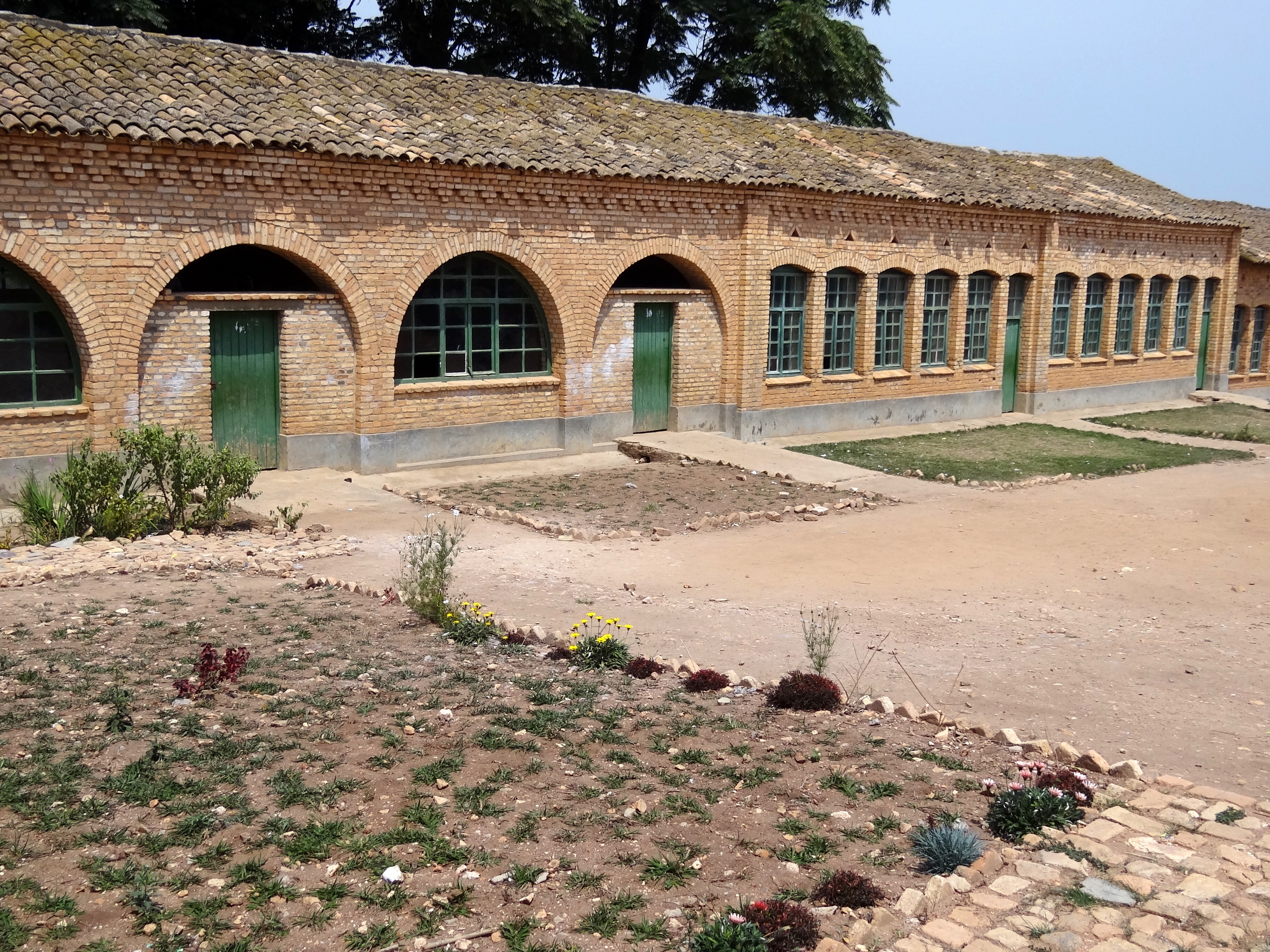 Colonial-Era Buildings at Kabgayi Hospital - Genocide Site - Outside Muhanga-Gitarama - Rwanda